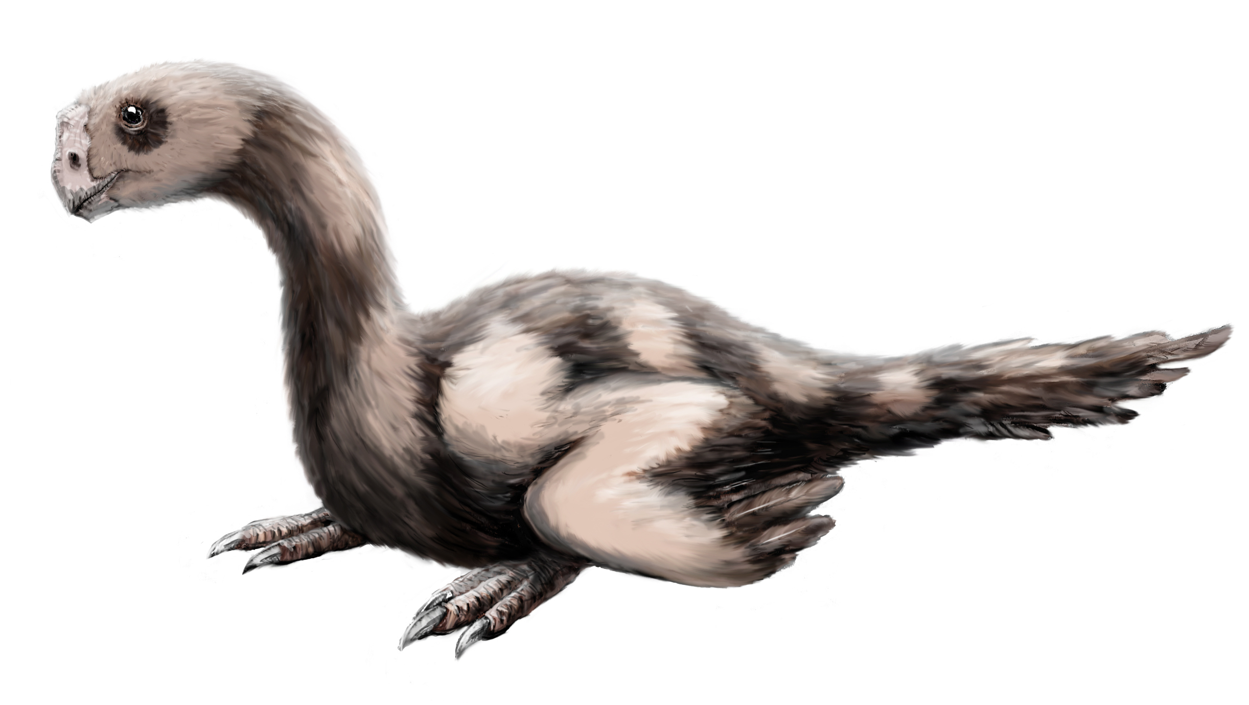 Microvenator celer in brooding position.